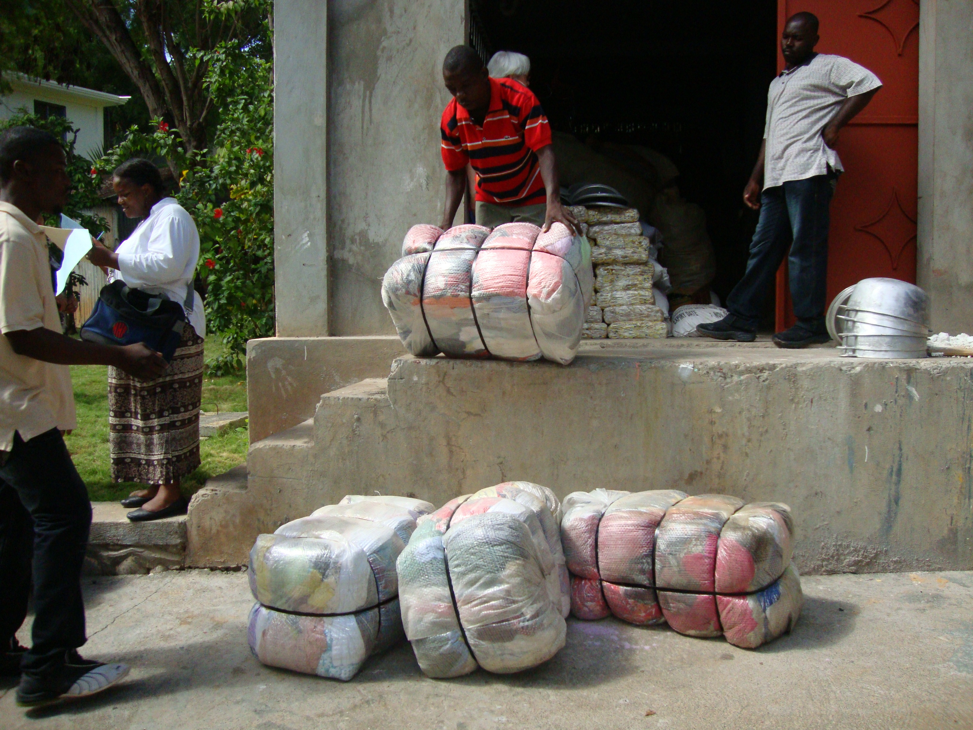 HHF employees help unload pepe (used clothes) in bales in Haiti.